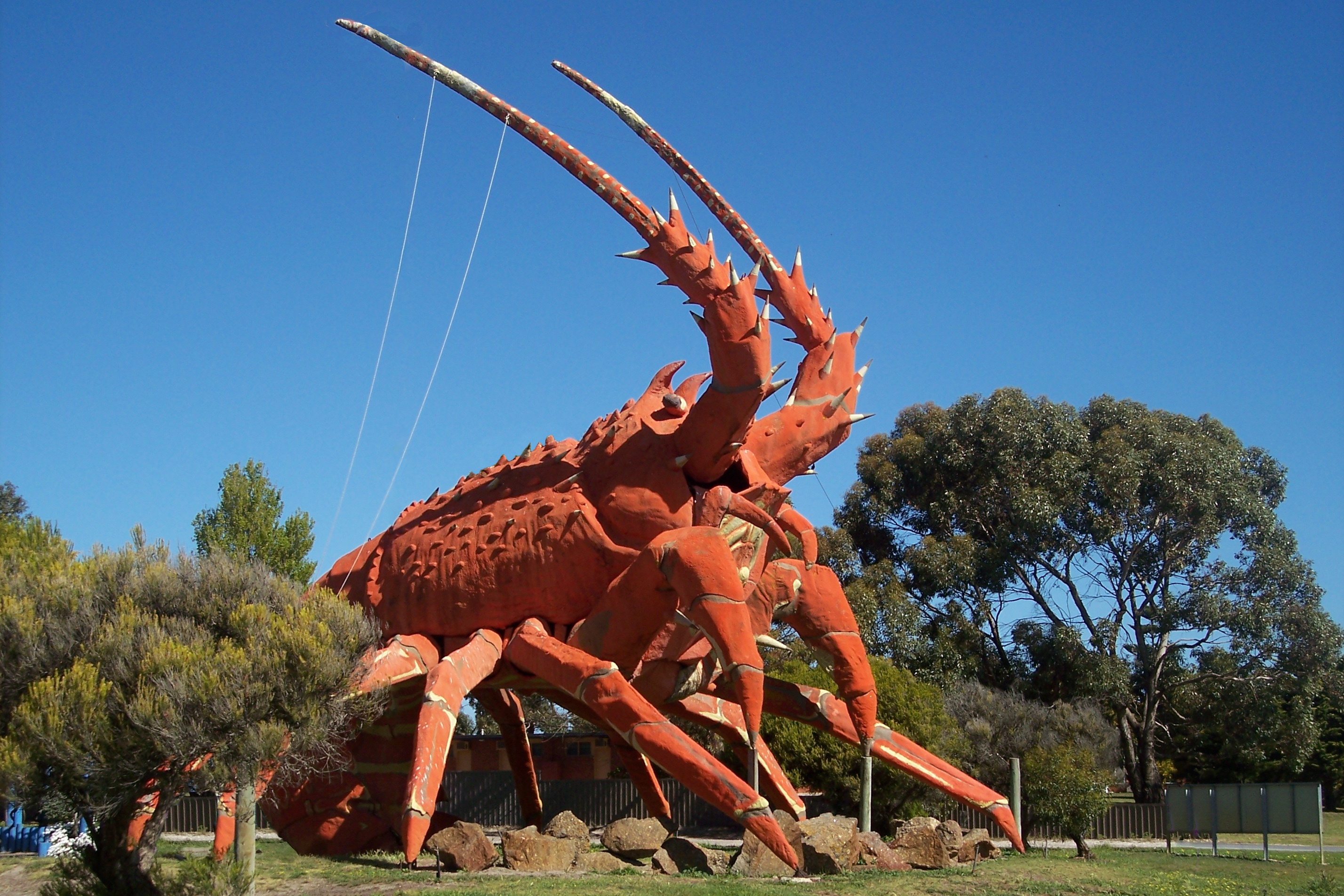 Sculpture of a lobster located at the northern entrance to Kingston SE, South Australia. The use of this image is permissible per freedom of panorama rules for Australia.